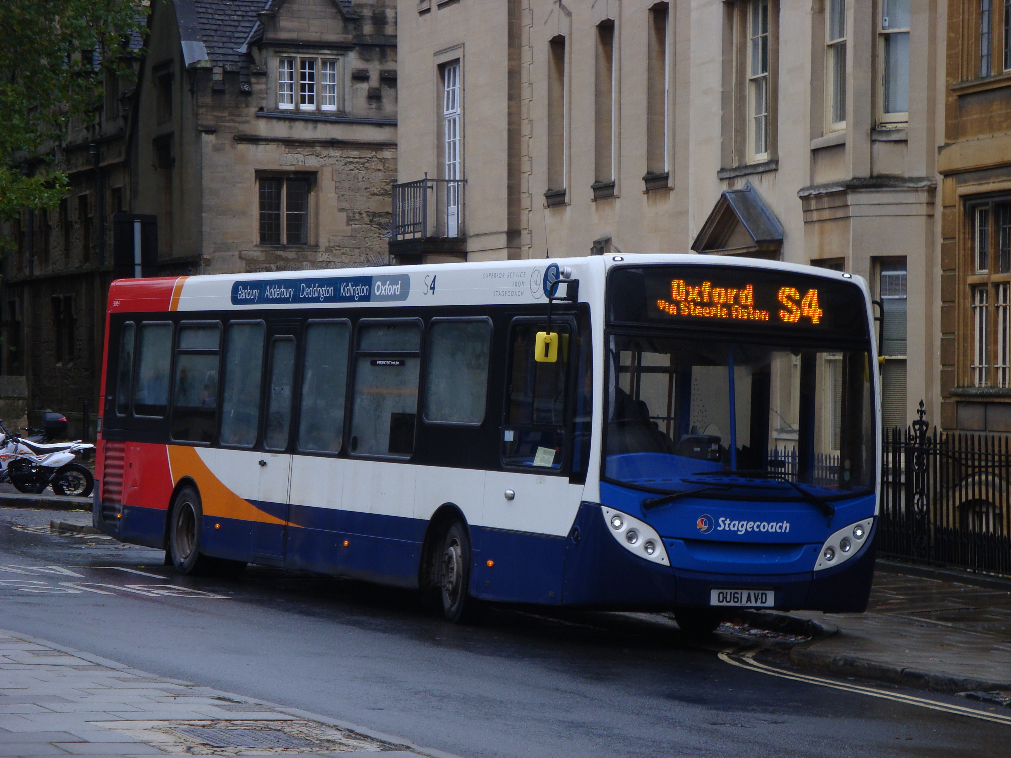 A Stagecoach in Oxfordshire Alexander Dennis Enviro200 bus on route S4 from Banbury, on arrival outside Balliol College, Magdalen Street East, Oxford